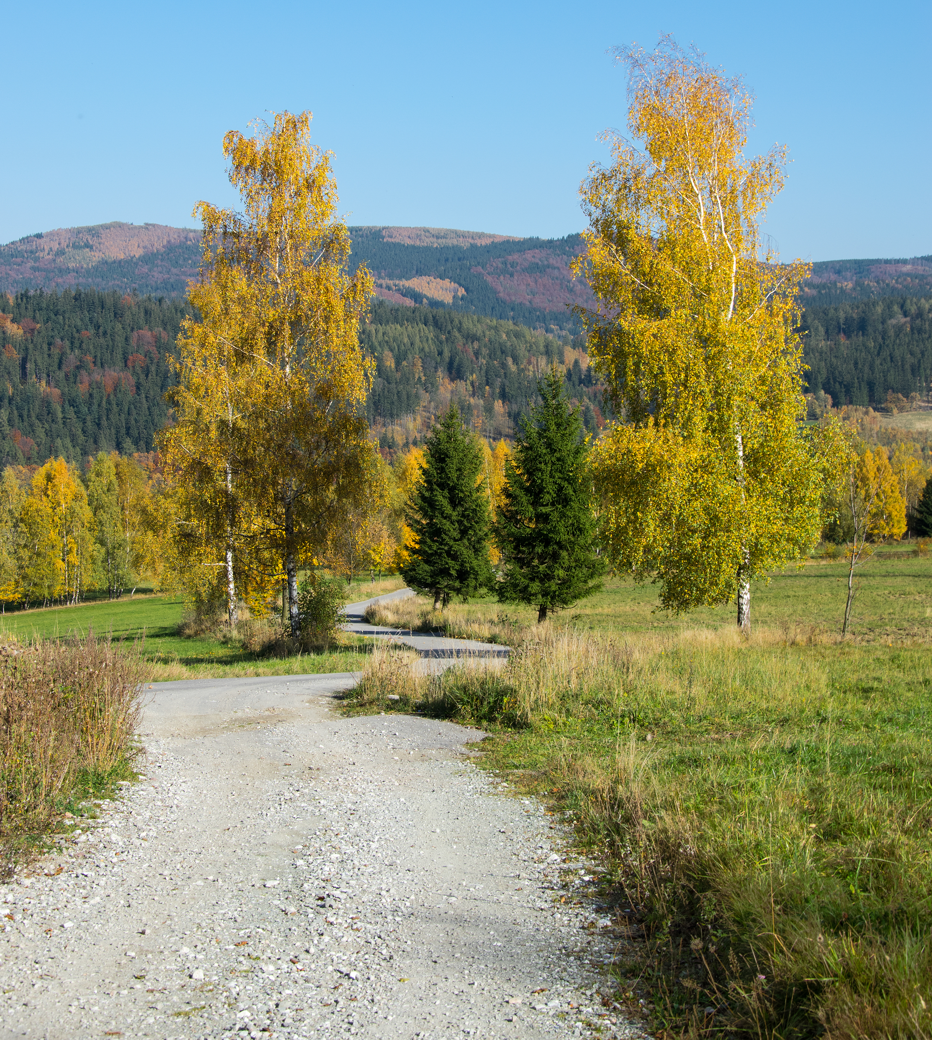 Gravel road in Stara Morawa